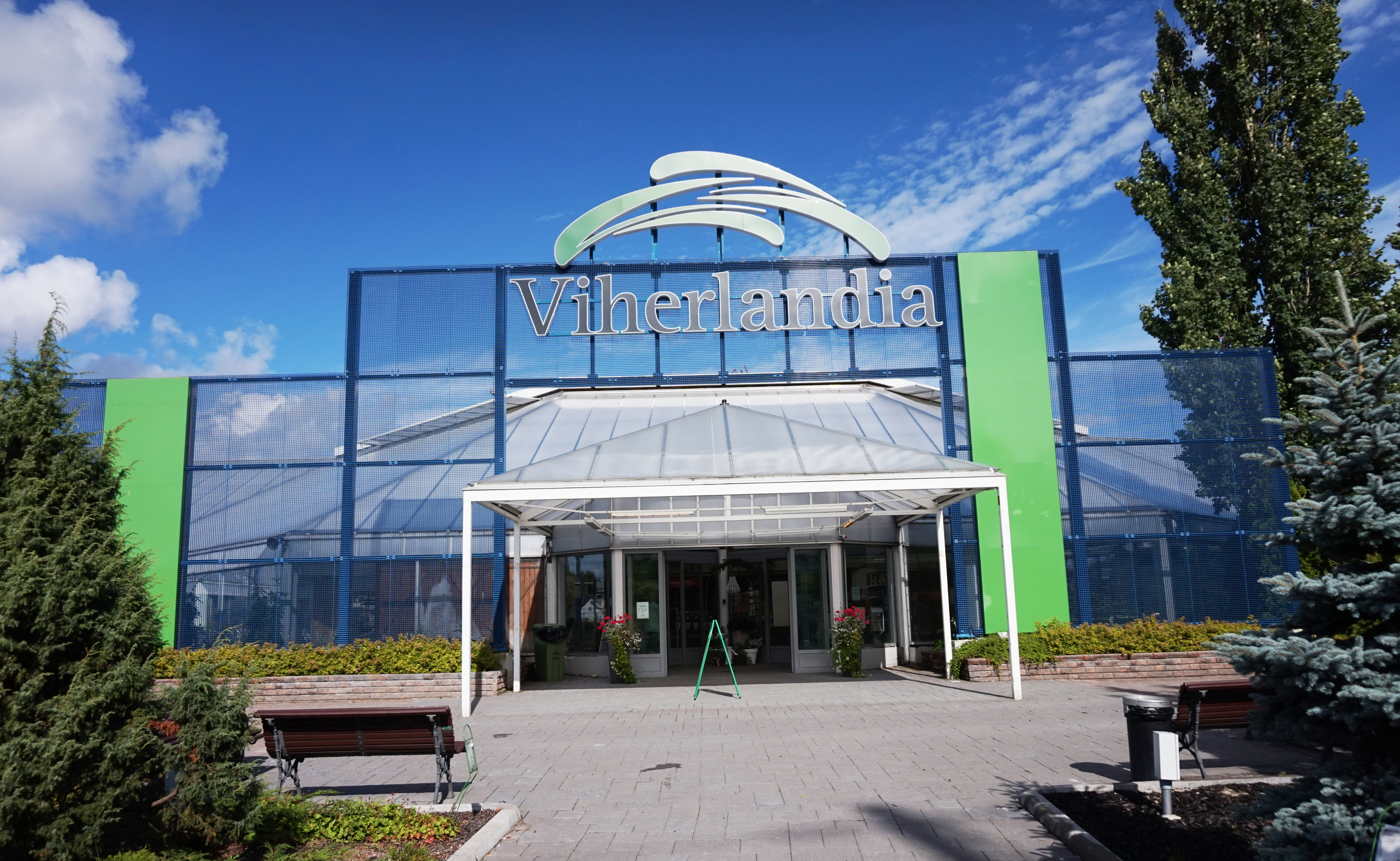 The garden centre Viherlandia in August 2016, Jyväskylä.